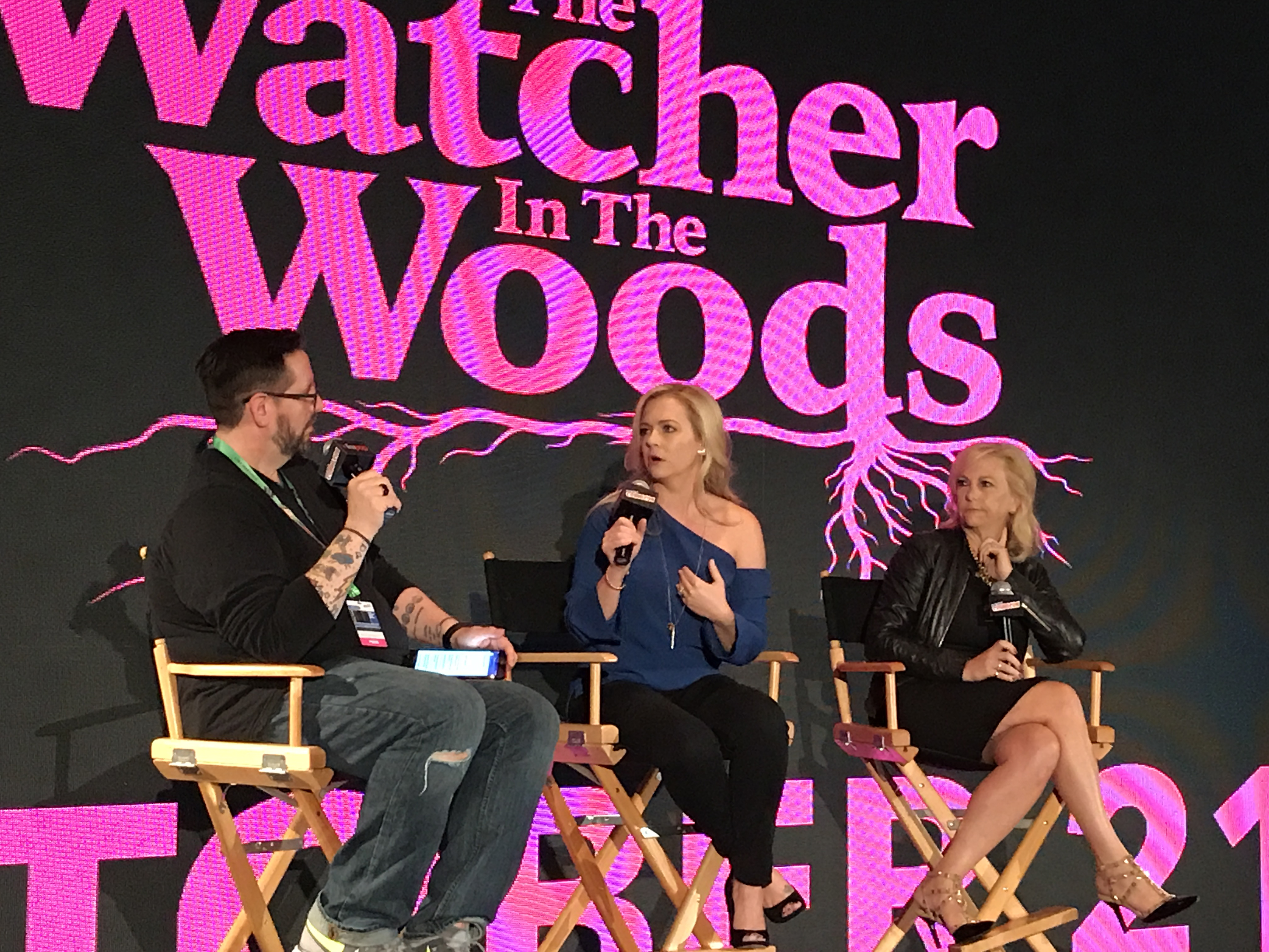 From left to right: Damian Holbrook of TV Guide moderating a panel discussion on the 2017 television film The Watcher in the Woods with actress Melissa Joan Hart, and producer Paula Hart, at the Jacob K. Javits Convention Center in Manhattan, on Thursday, October 5, 2017, Day 1 of the 2017 New York Comic Con. This photo was created by Luigi Novi. It is not in the public domain, and use of this file outside of the licensing terms is a copyright violation.